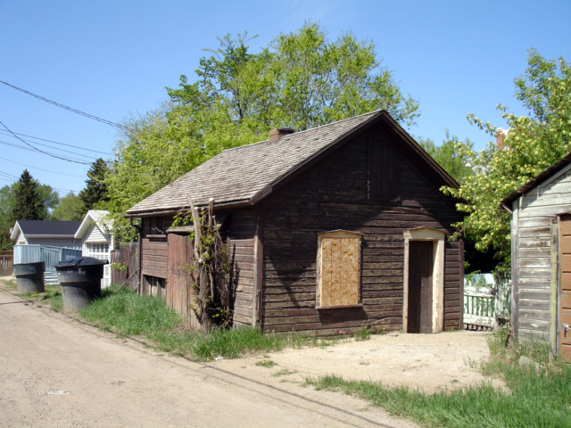 Trounce House (1883), the oldest building in Saskatoon, Saskatchewan, Canada. It is the last remaining house from the original temperance colony.